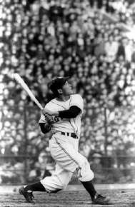 Tetsuharu Kawakami batting